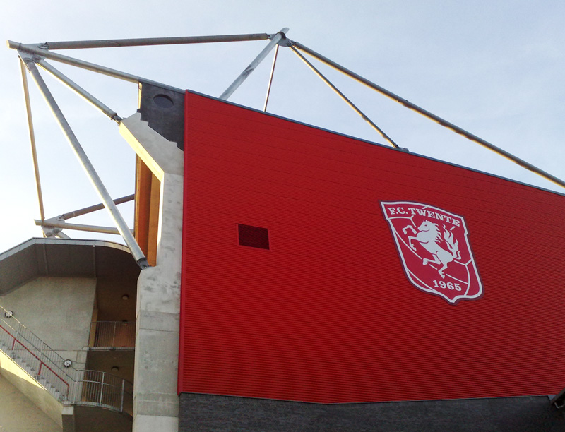 The side of De Grolsch Veste, the stadium of FC Twente